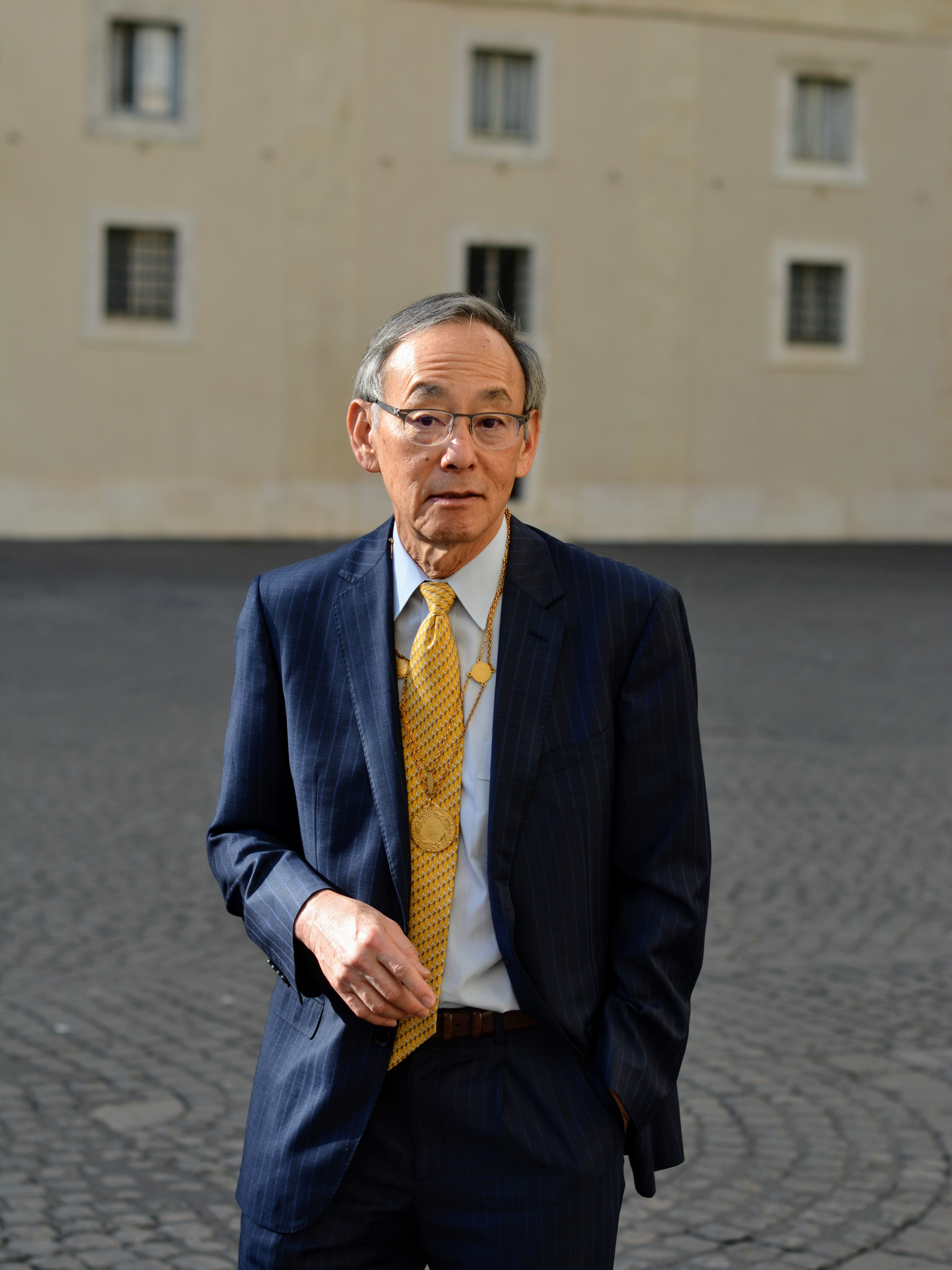 Steven Chu with his medal as a Pontifical Academician that he received from Pope Francis during a papal audience on 12 November 2018